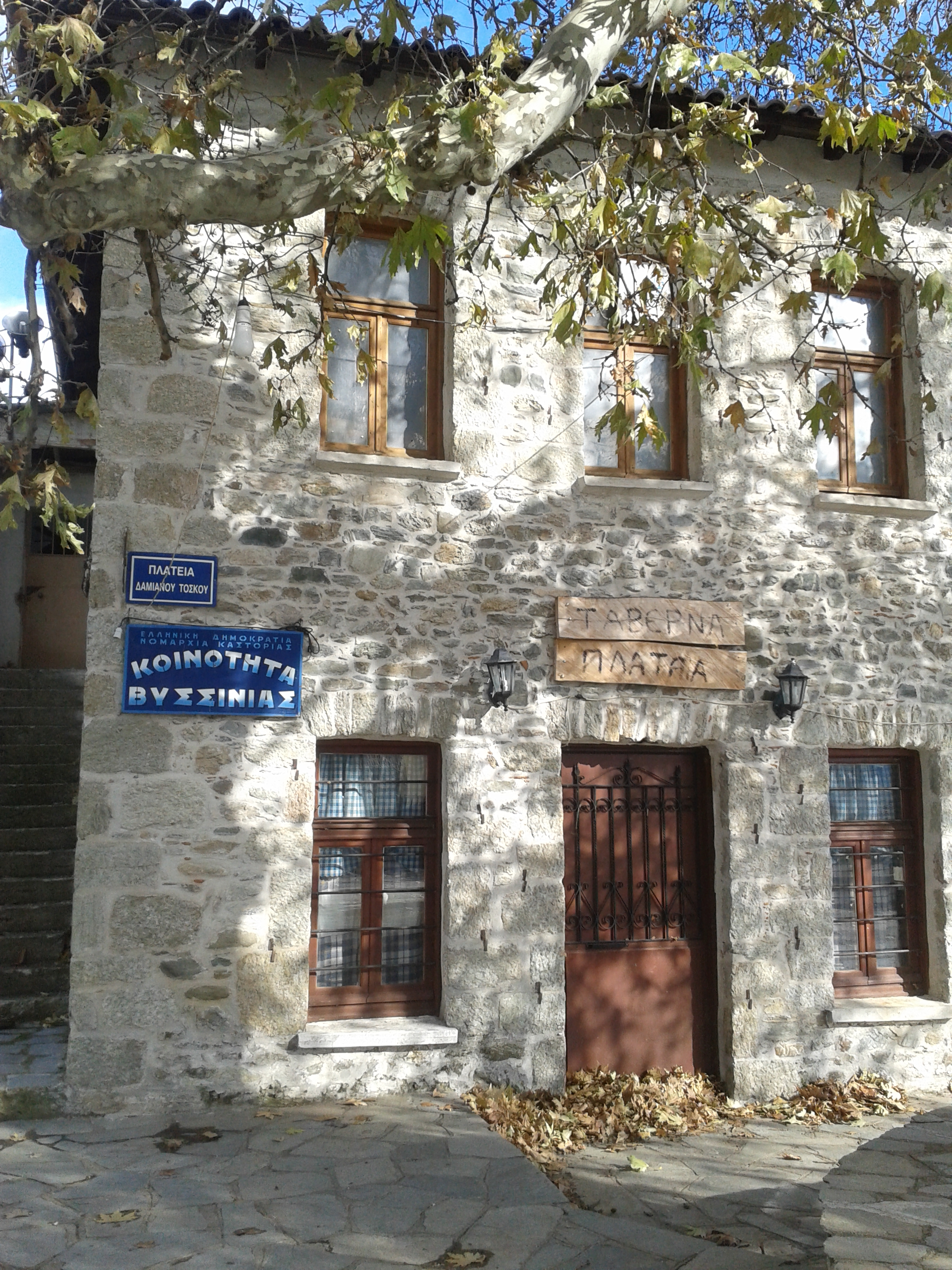 Municipal house in Vissinia, Kastoria Prefecture.